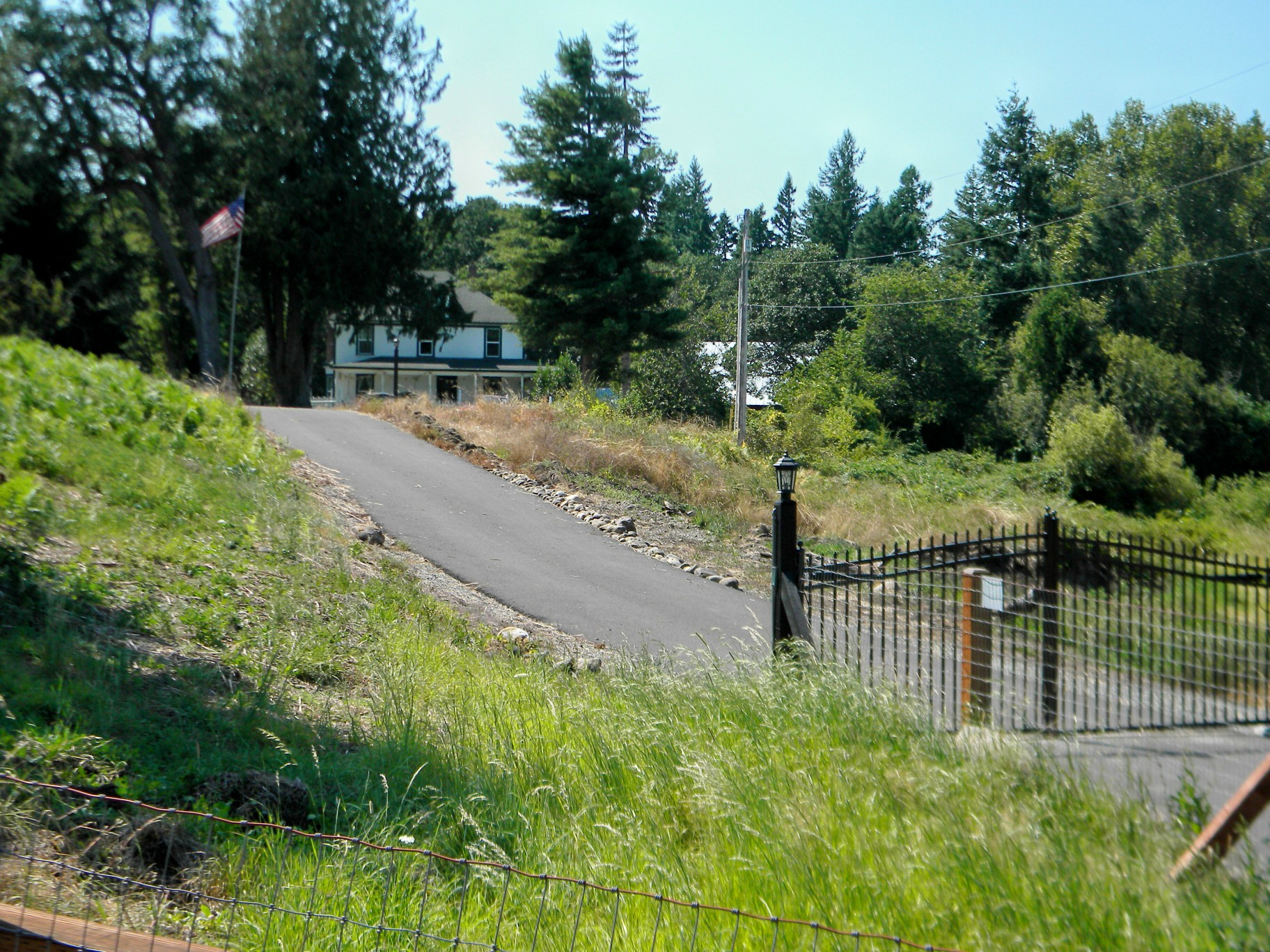 L. N. Rice House Property is gated and does not have clear views.